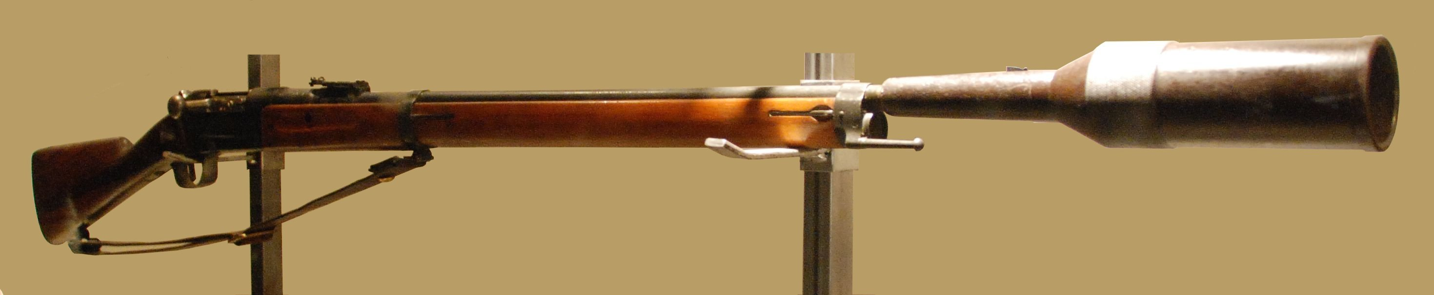 French fusil Lebel Mle 1886 with the grenade launcher VB; the Verdun Memorial, Fleury-devant-Douaumont, France